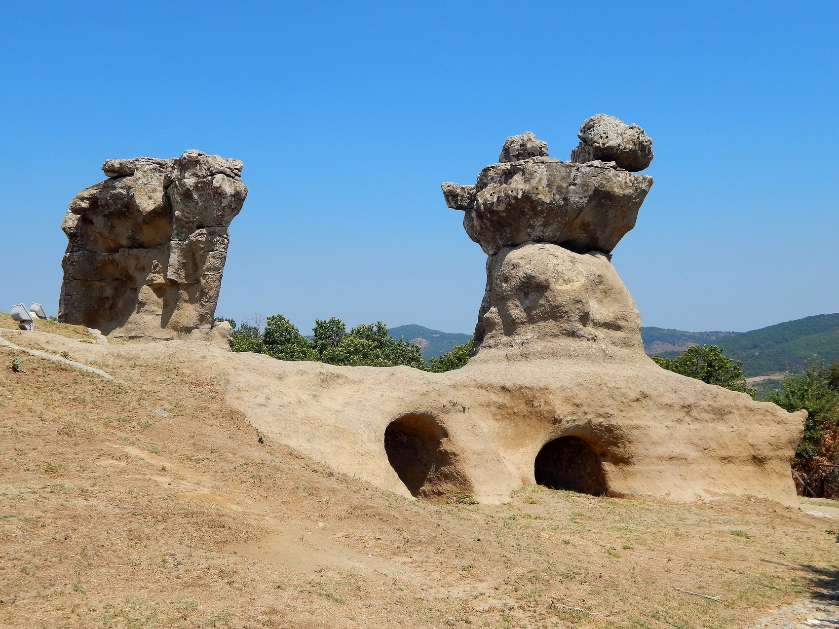 This is a photo of a monument which is part of cultural heritage of Italy.